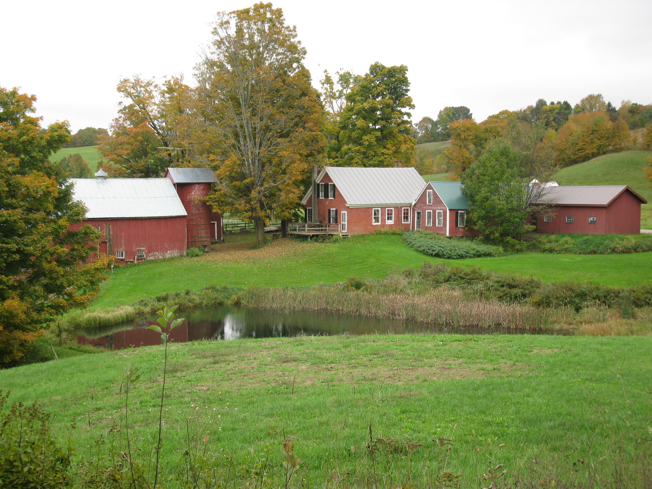 Side View